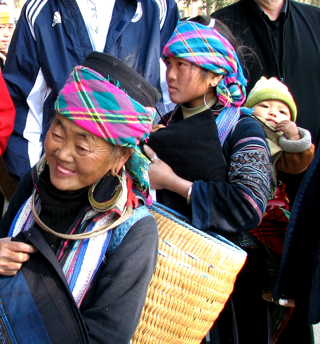 Black H'mong family – Grandmother, mother, grandson- Sapa Vietnam